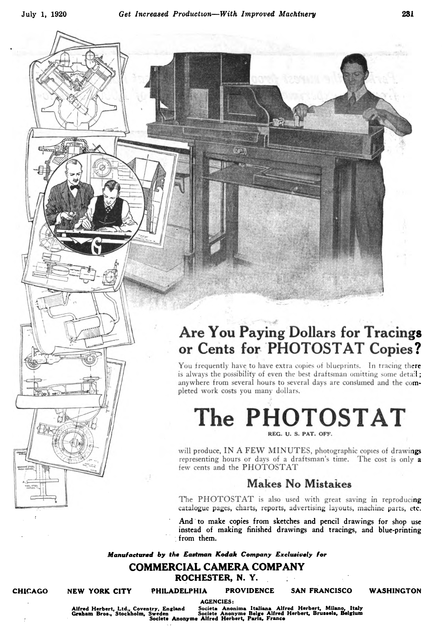 Commercial Camera Company advertisement for Photostat in American Machinist, volume 53, number 1, July 1, 1920, page 231.